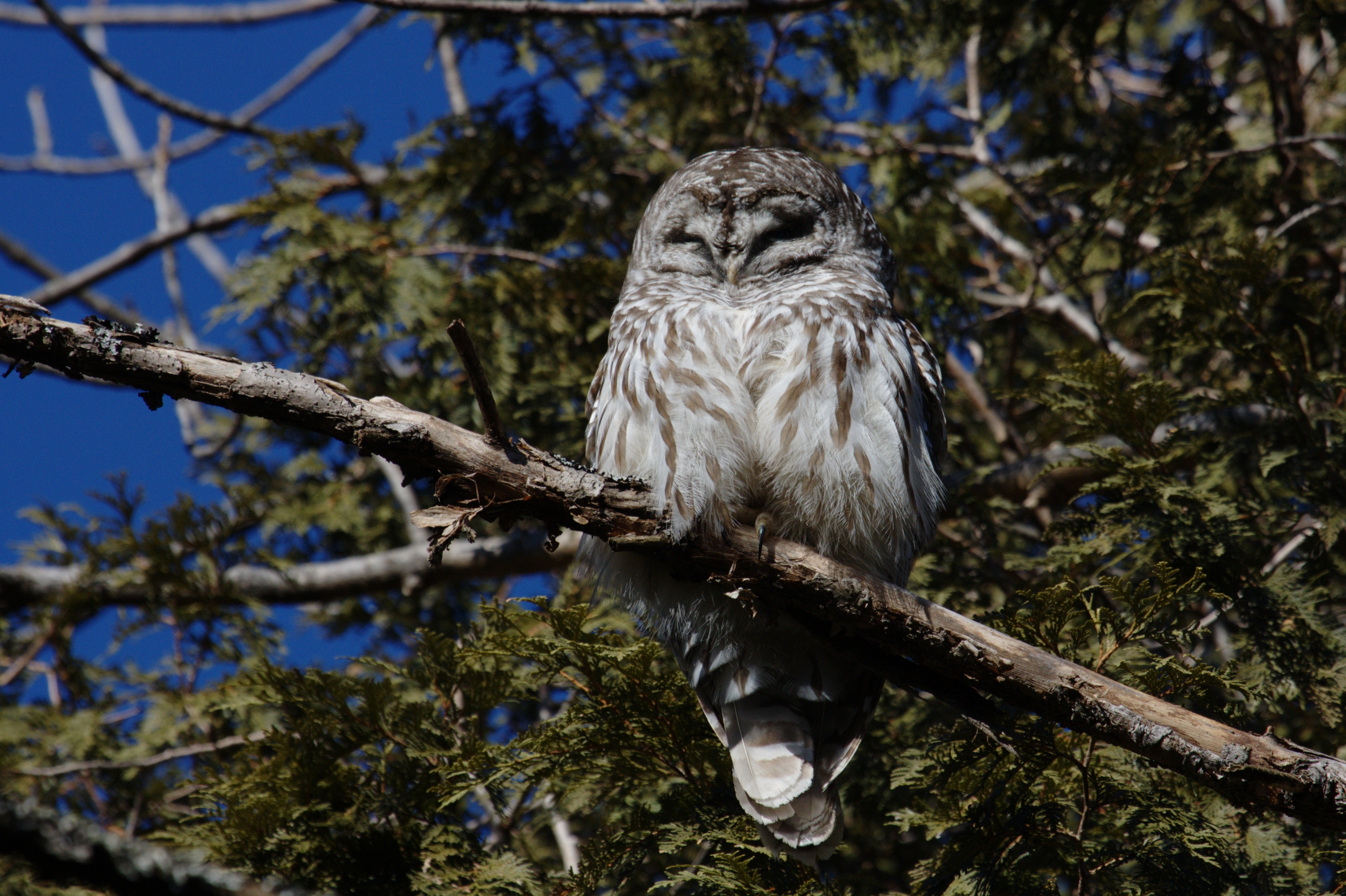 Barred Owl (Strix varia), Cap Tourmente National Wildlife Area, Quebec, Canada